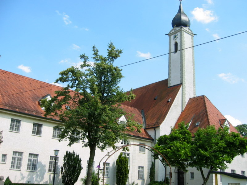 Altenhohenau Monastery